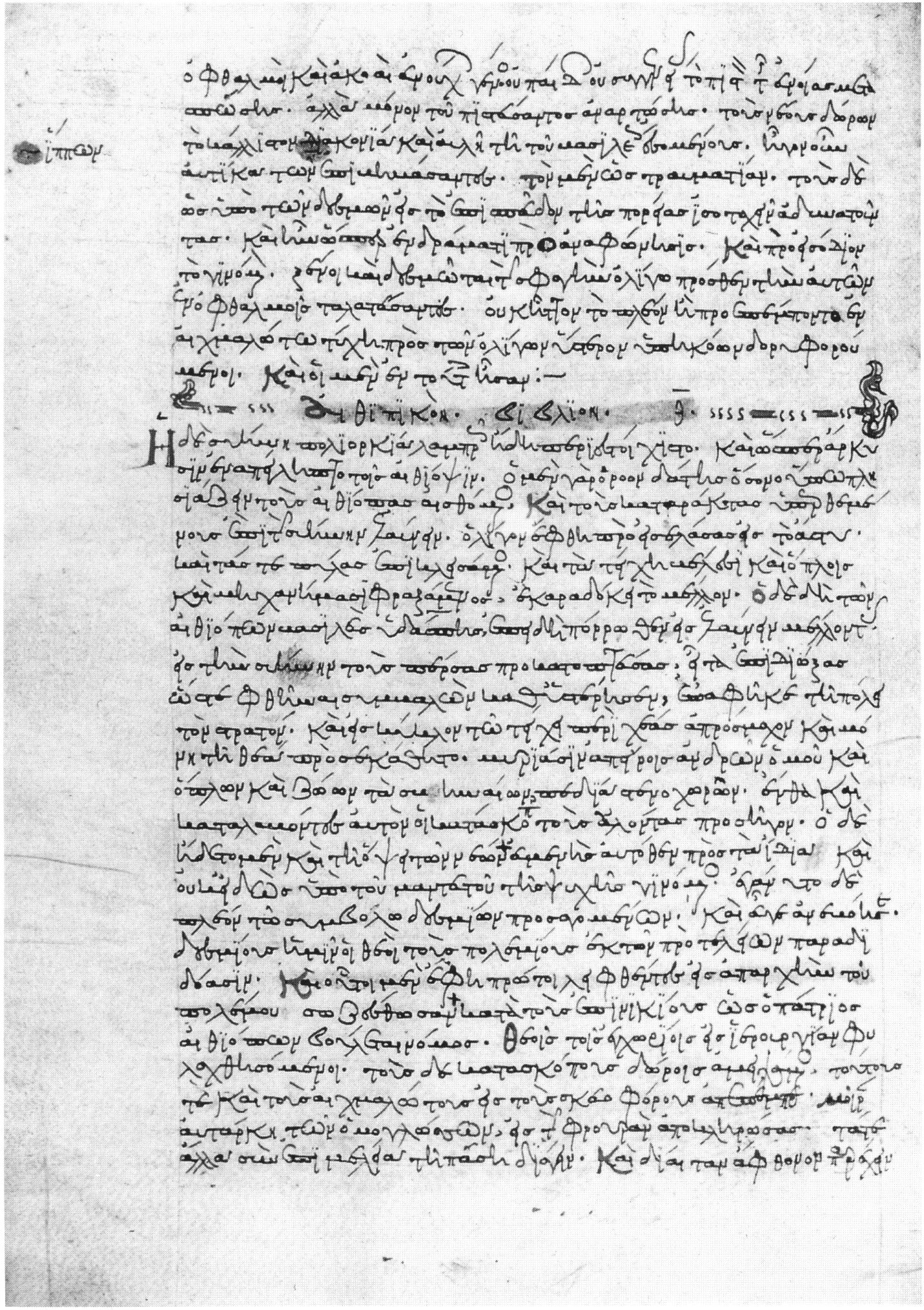 Heliodorus of Emesa, Aethiopica, in a manuscript from the library of Bessarion; one of the earliest extant manuscripts of the novel. Venice, Biblioteca Nazionale Marciana, Gr. 410, fol. 94v.